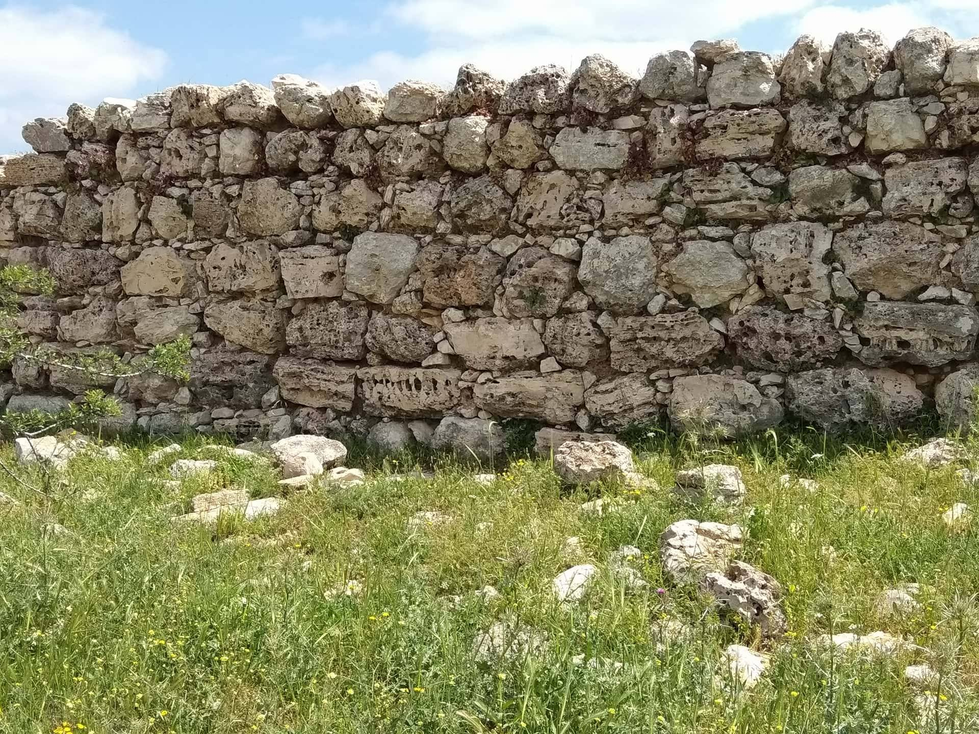 A picture of an existing wall of the ruins of Khirbet Jalal al-Din east of the town of Bruqin, west of Salfit